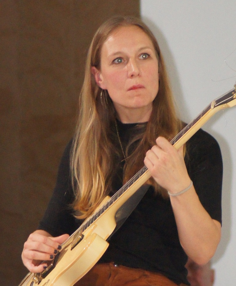 Hedvig Mollestad, 2019